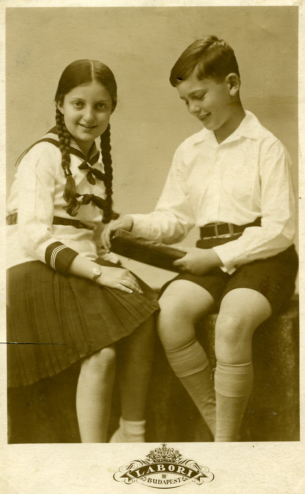 Hannah Senesh and her brother in Budapest